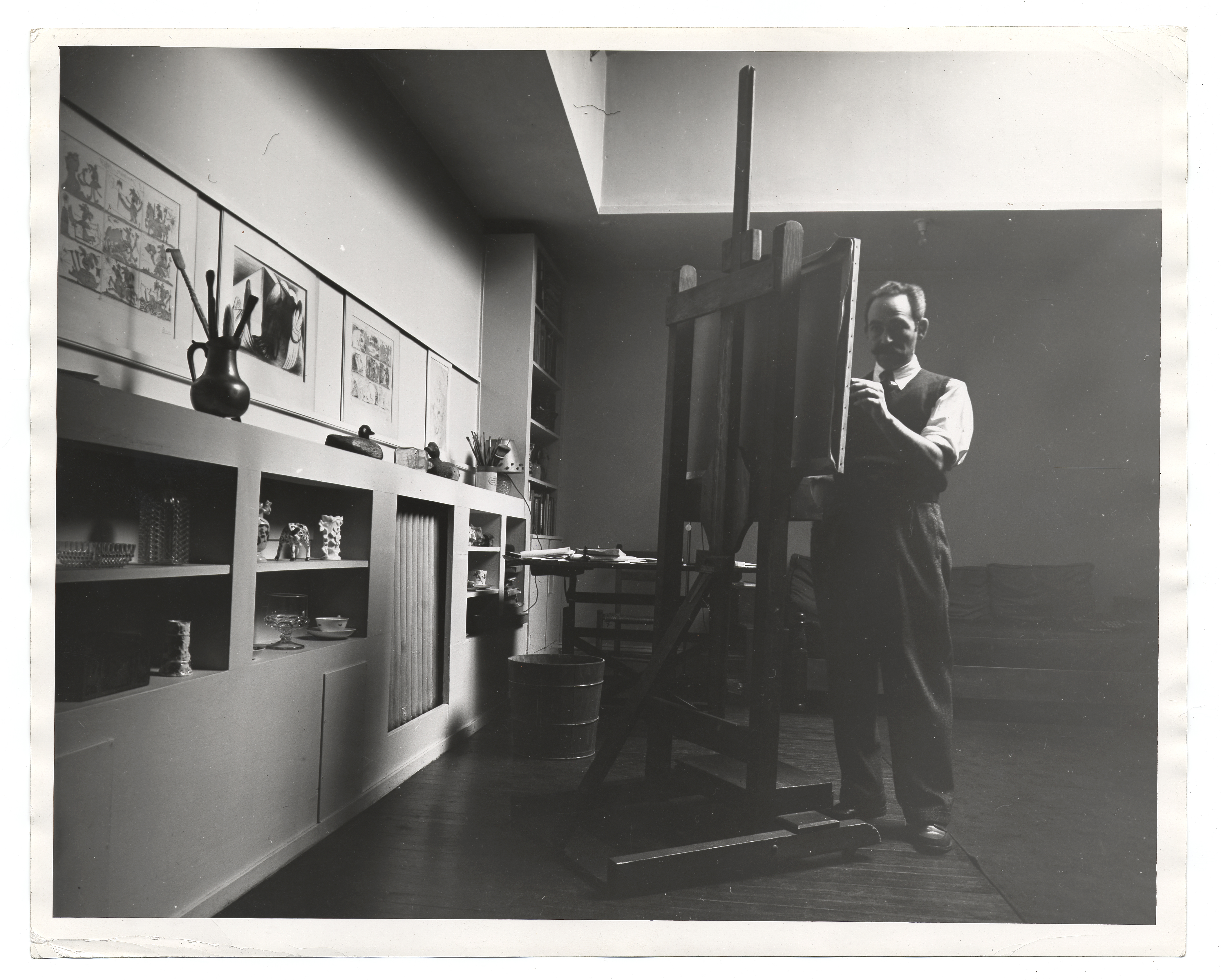 Levi working at an easel, photographed for the WPA Federal Art Project.Identification on verso (handwritten and stamped): Federal Art Project W.P.A.; Photographic Division; 110 King Street; New York City Julian Levi gets ready for Art Week. He is one of 1,500 New York artists who have registered; Negative No.: 5353-9; Date: 10/31/40; Title: Publicity for Art Week; Location: 282 W. 4 St., Man.; Photographer: Yavno; Artist: Julian Levi; W.P. number: 1; O.P. number: 65-1-97-2063.